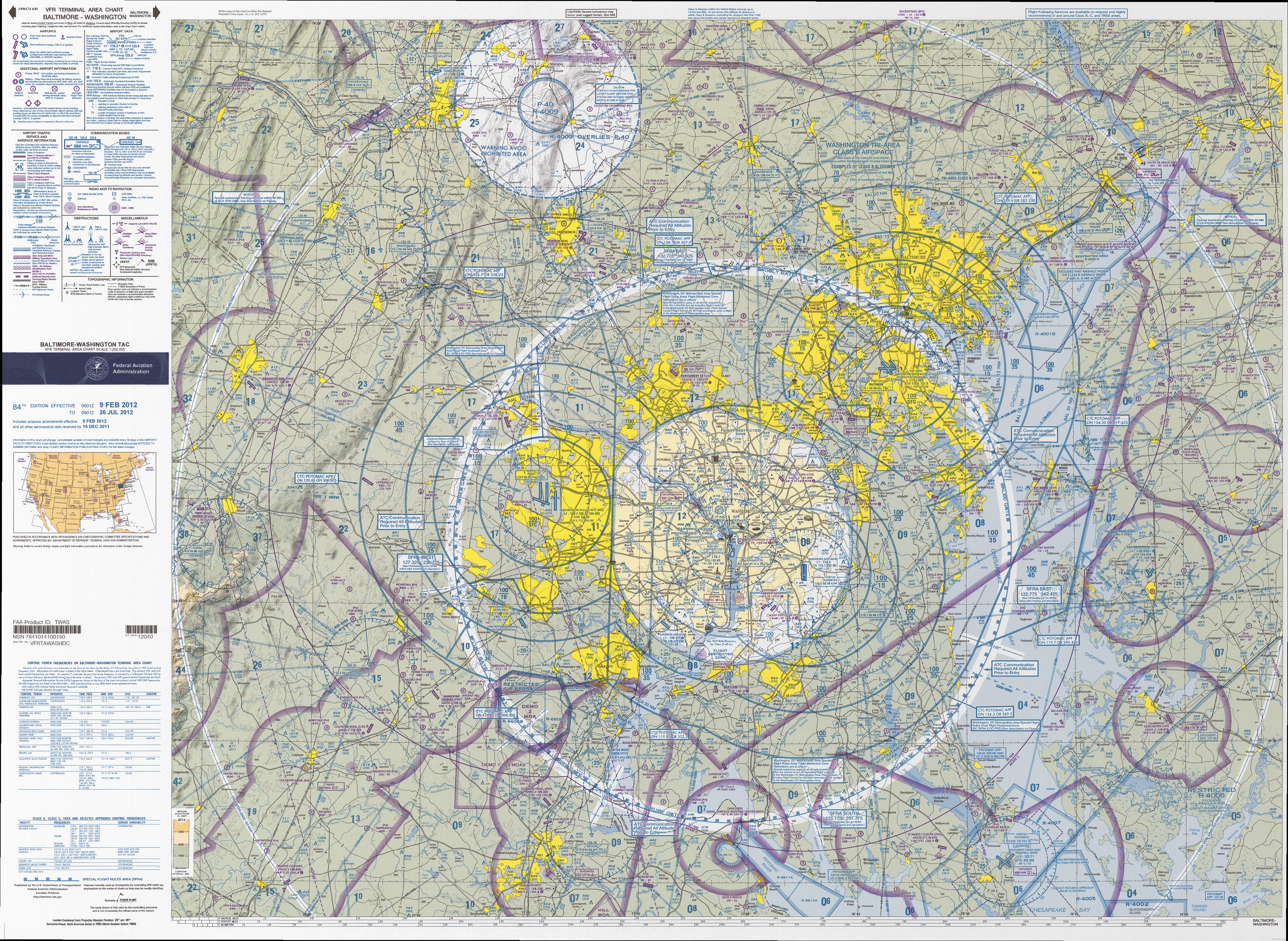 VFR Terminal Area Raster Aeronautical Chart Baltimore/Washington, 82nd edition. This map is valid until 26 July 2012, be sure to get the newest edition at the official FAA website